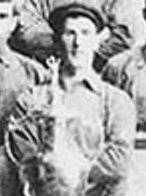 Image is from Liverpool teamphoto in 1900.